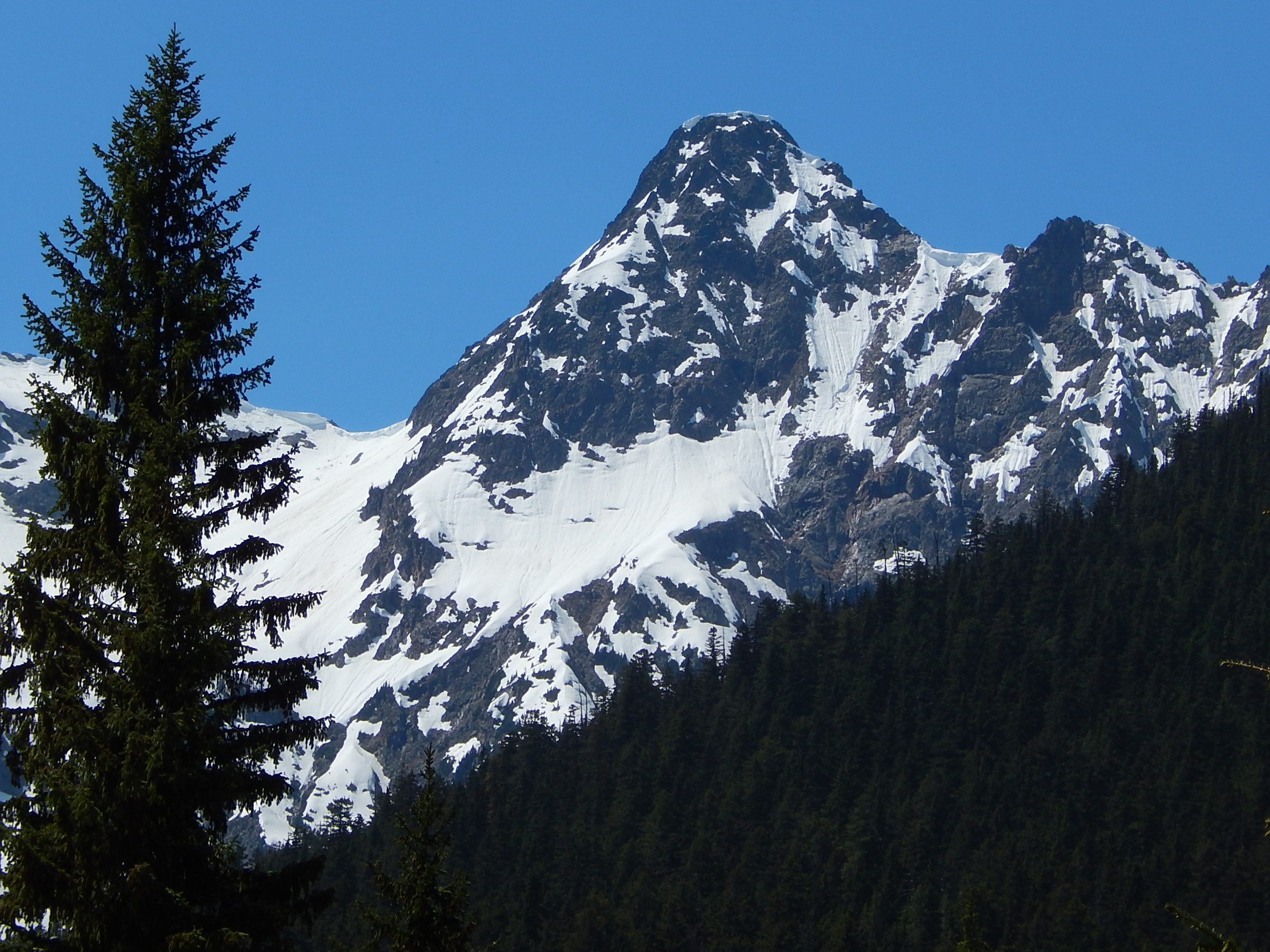 Kitling Peak on Ragged Ridge near Easy Pass. Seen from North Cascades Highway at milepost 150.